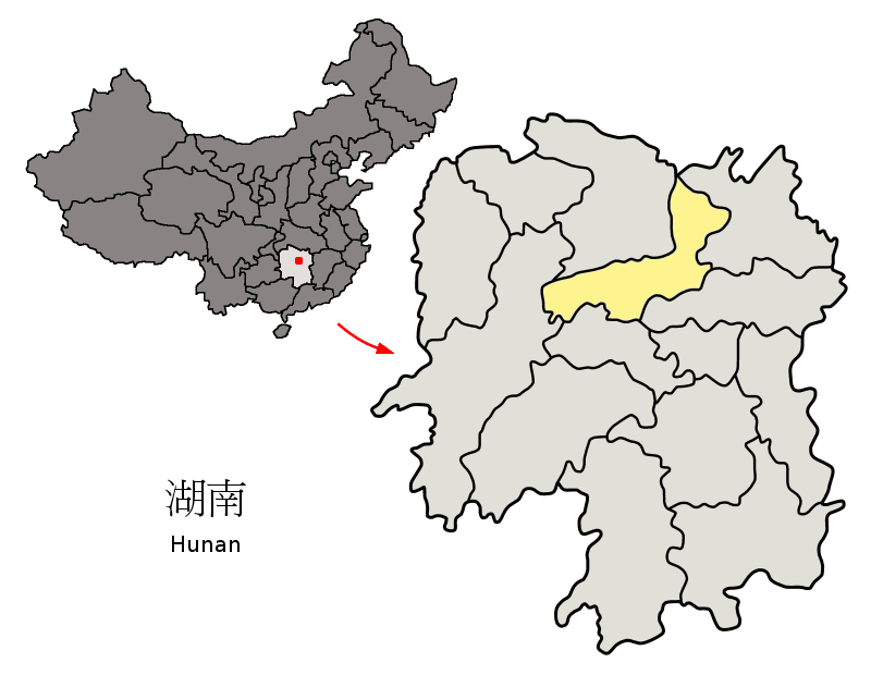 Location of Yiyang Prefecture (yellow) within Hunan Province of China Map drawn in december 2007 using various sources, mainly : Hunan Province administrative regions GIS data: 1:1M, County level, 1990 Hunan Counties map from